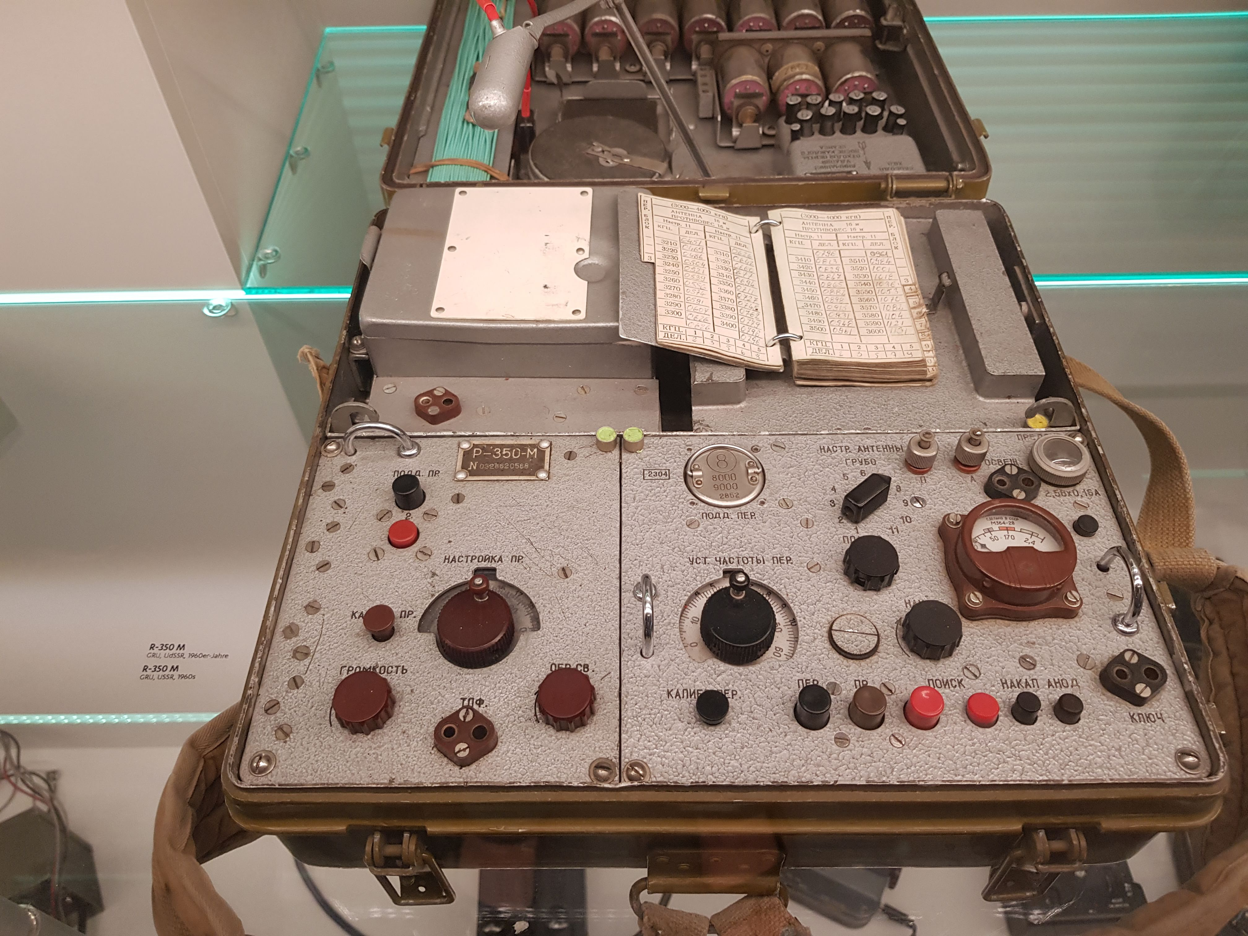 Soviet spy radio set (Eagle) Mark II R-350M